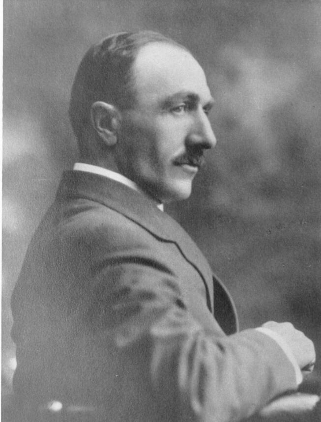 Walter Maxfield Lea, premier of Prince Edward Island